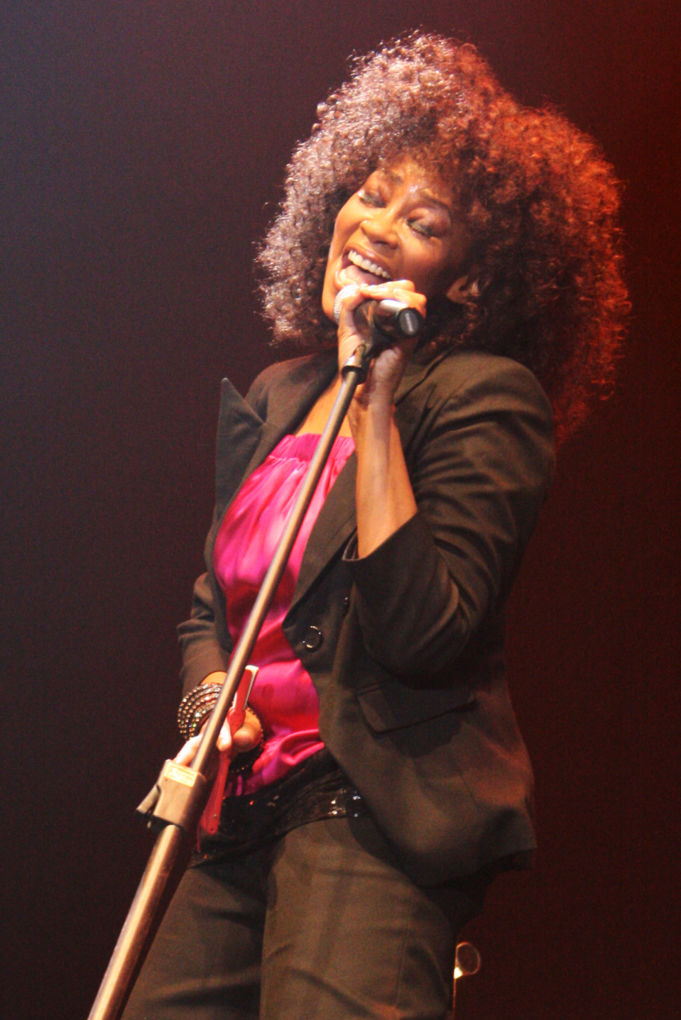 Jody Watley performing in Jakarta International Java Jazz Festival 2008